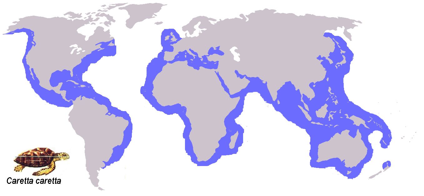 Geographical distribution of Caretta caretta. Done by Esculapio